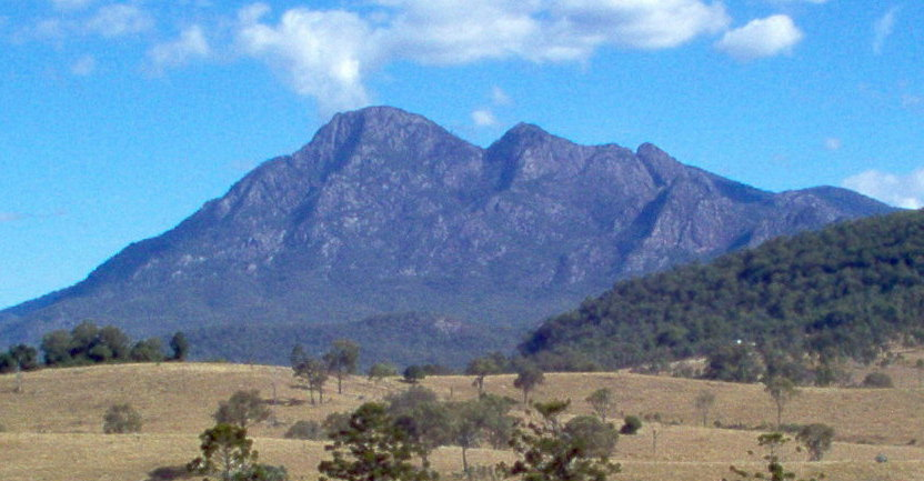 Mount Barney, Queensland, Australia looking towards south west